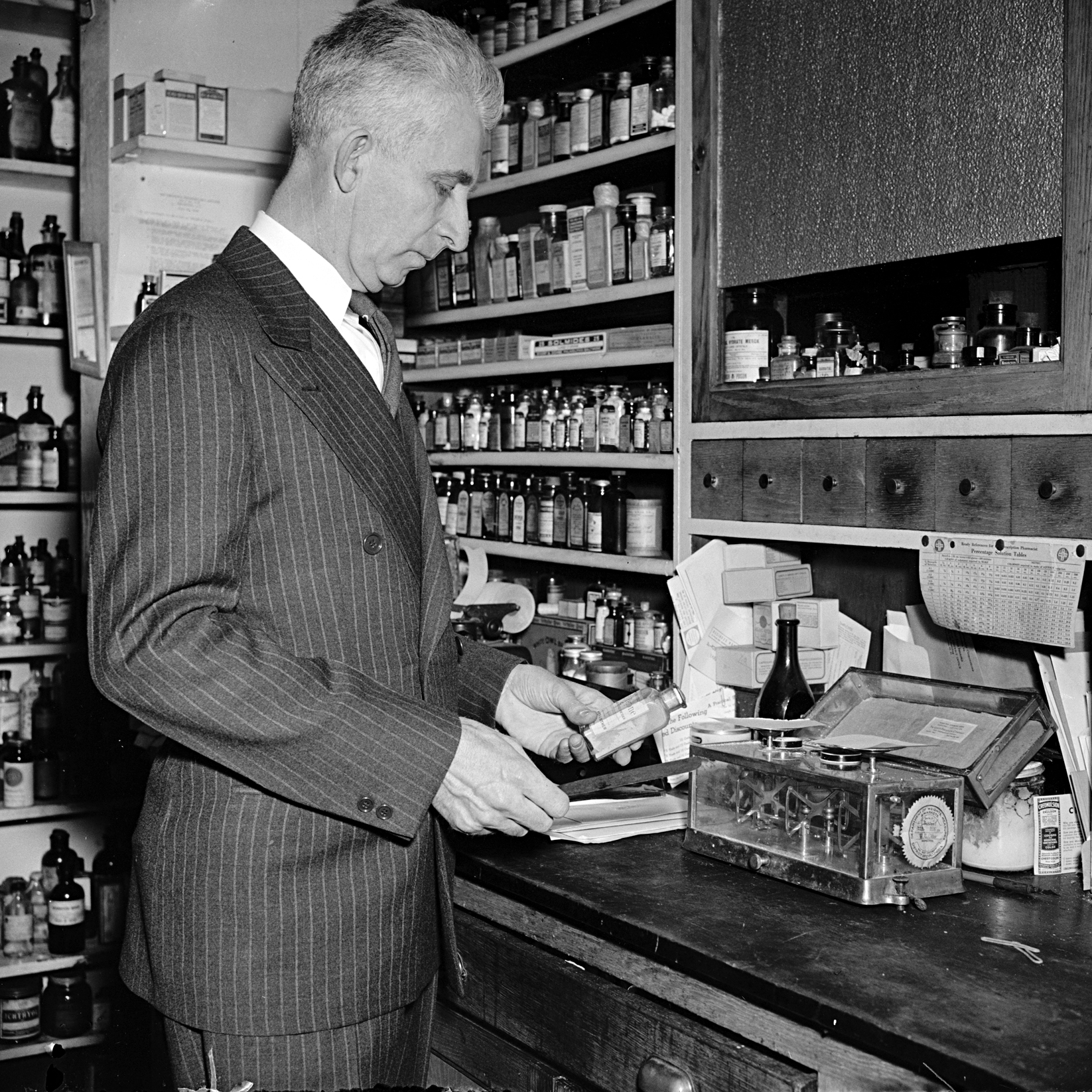 Carl T. Durham, US Representative from North Carolina